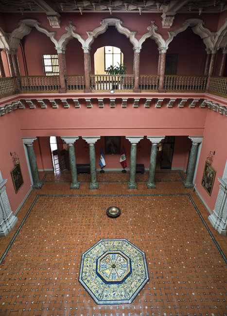 Patio interno de la Embajada visto desde el tercer piso